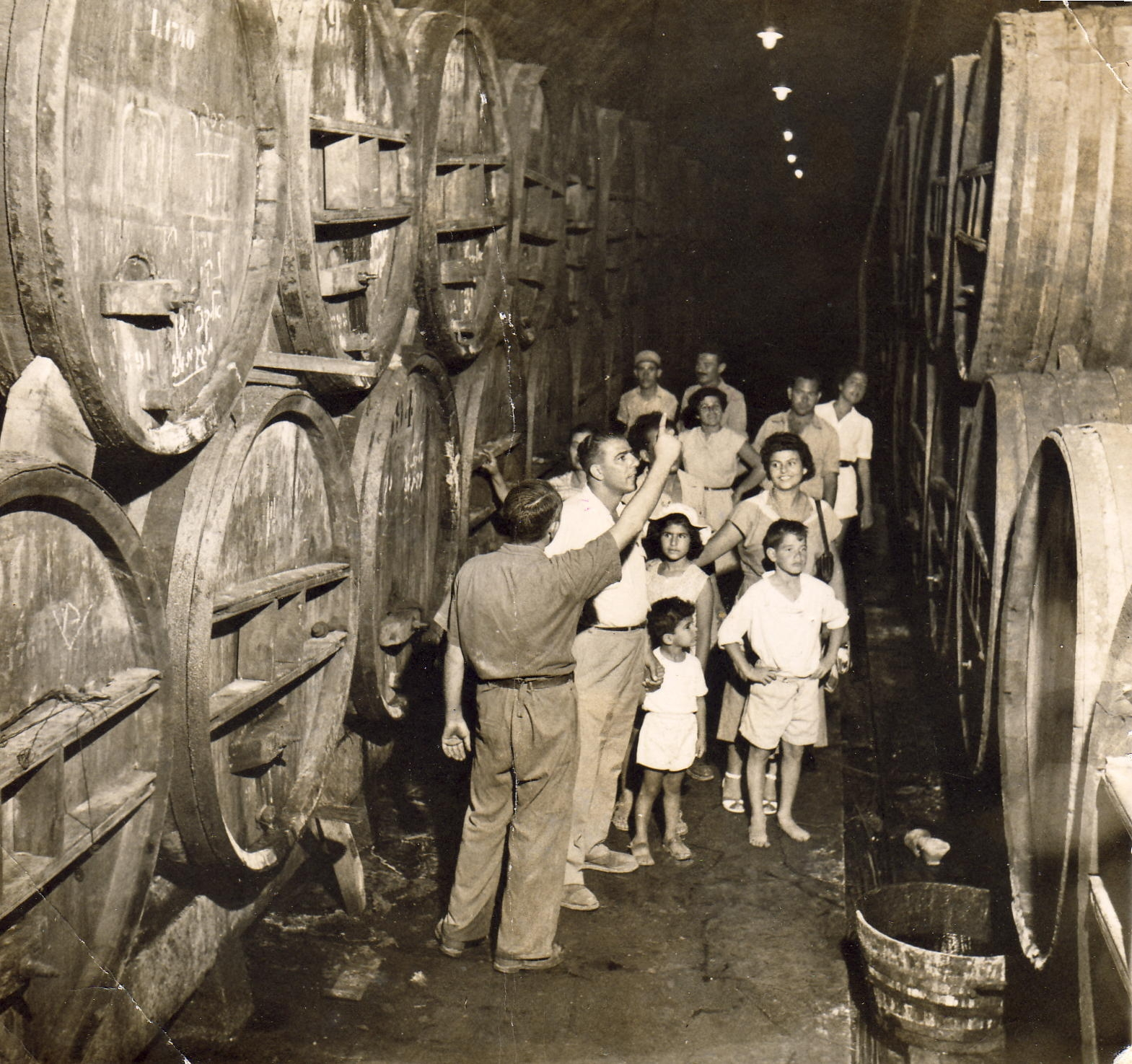 Mass Media in Israel